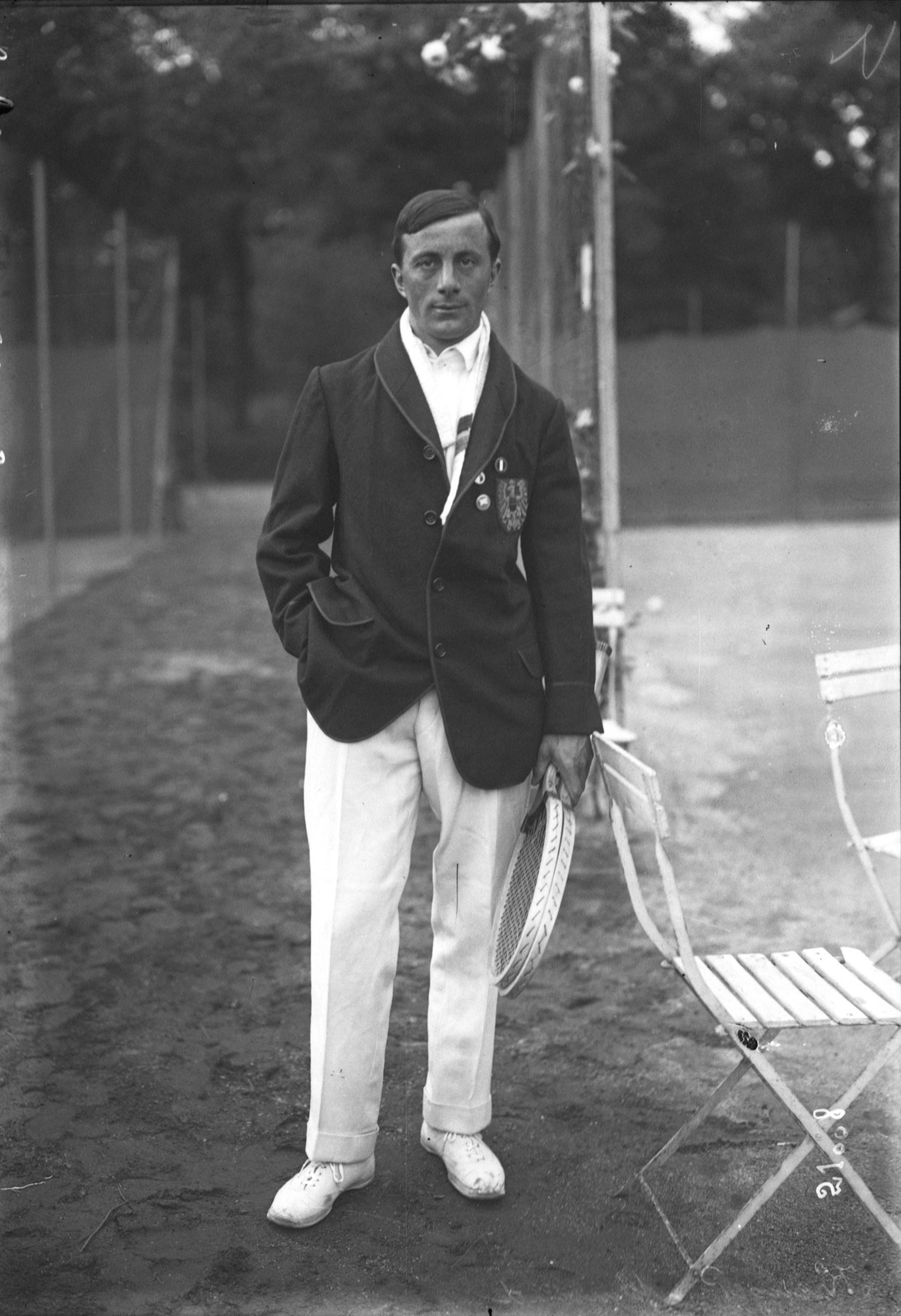 Oskar Kreuzer